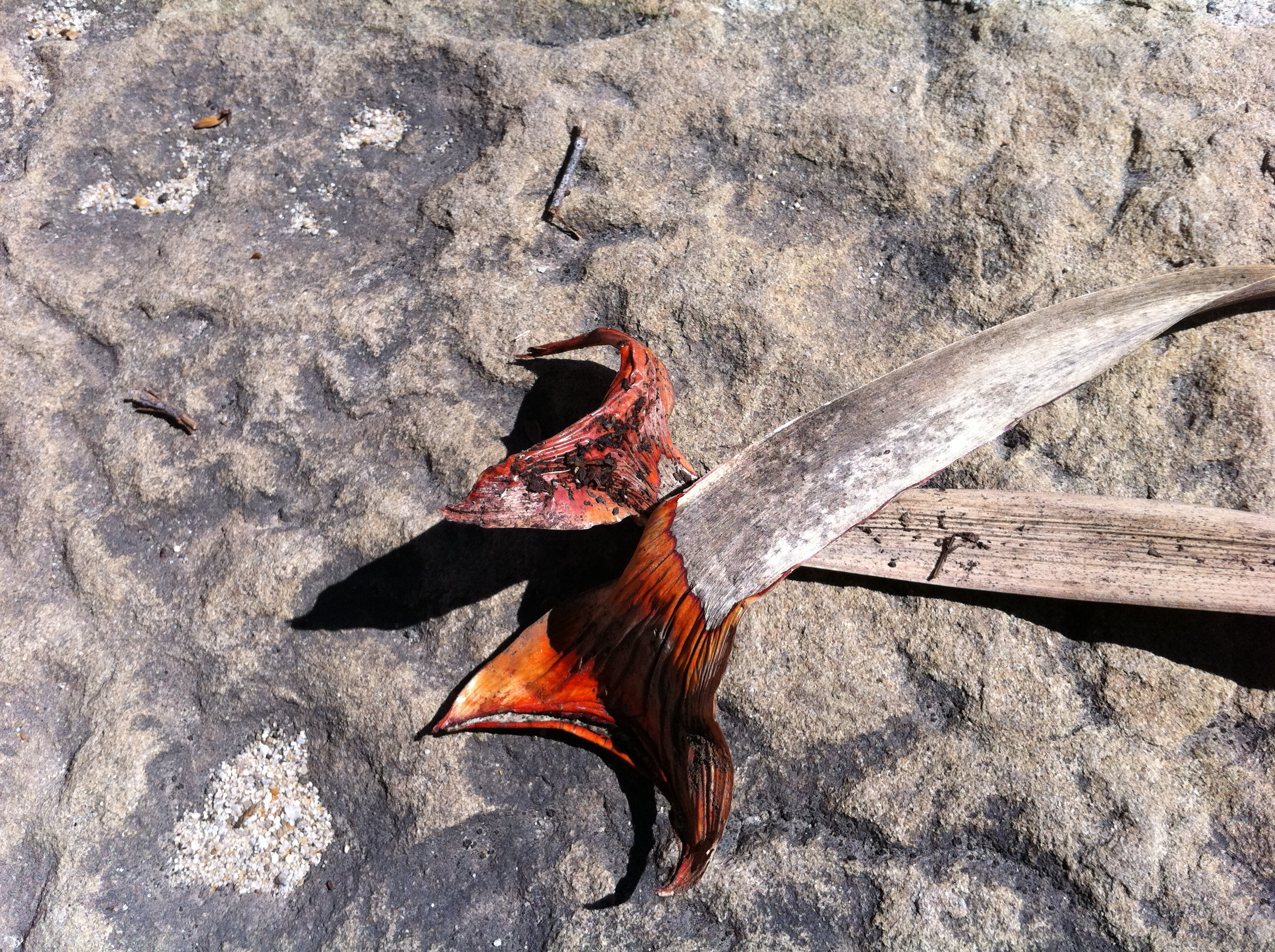 Dead leaves of Dracaena draco at whose bases you can see the red pigment called "dragon's blood," said to have been used on Stradivarius violins. Photographed in the gardens of Lotusland — in Montecito, near Santa Barbara in southern California.